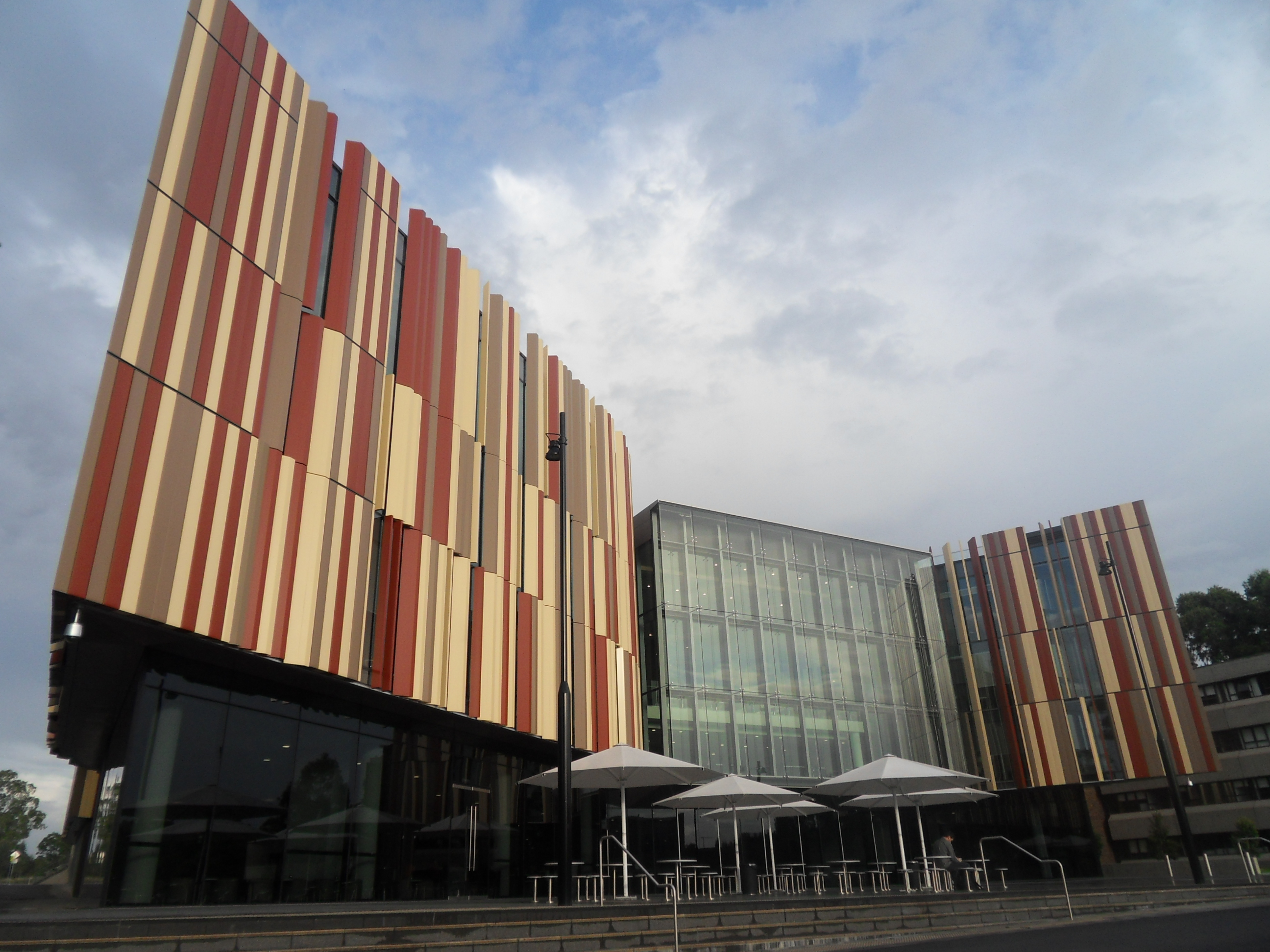 Macquarie Uni Library June 2011